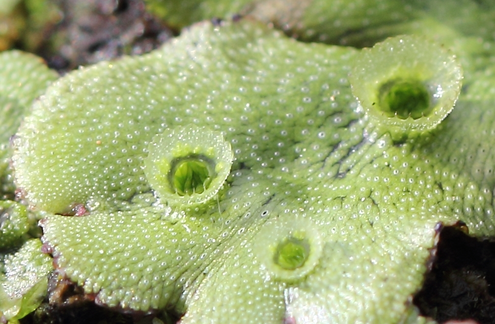 close-up of liverworts thallus